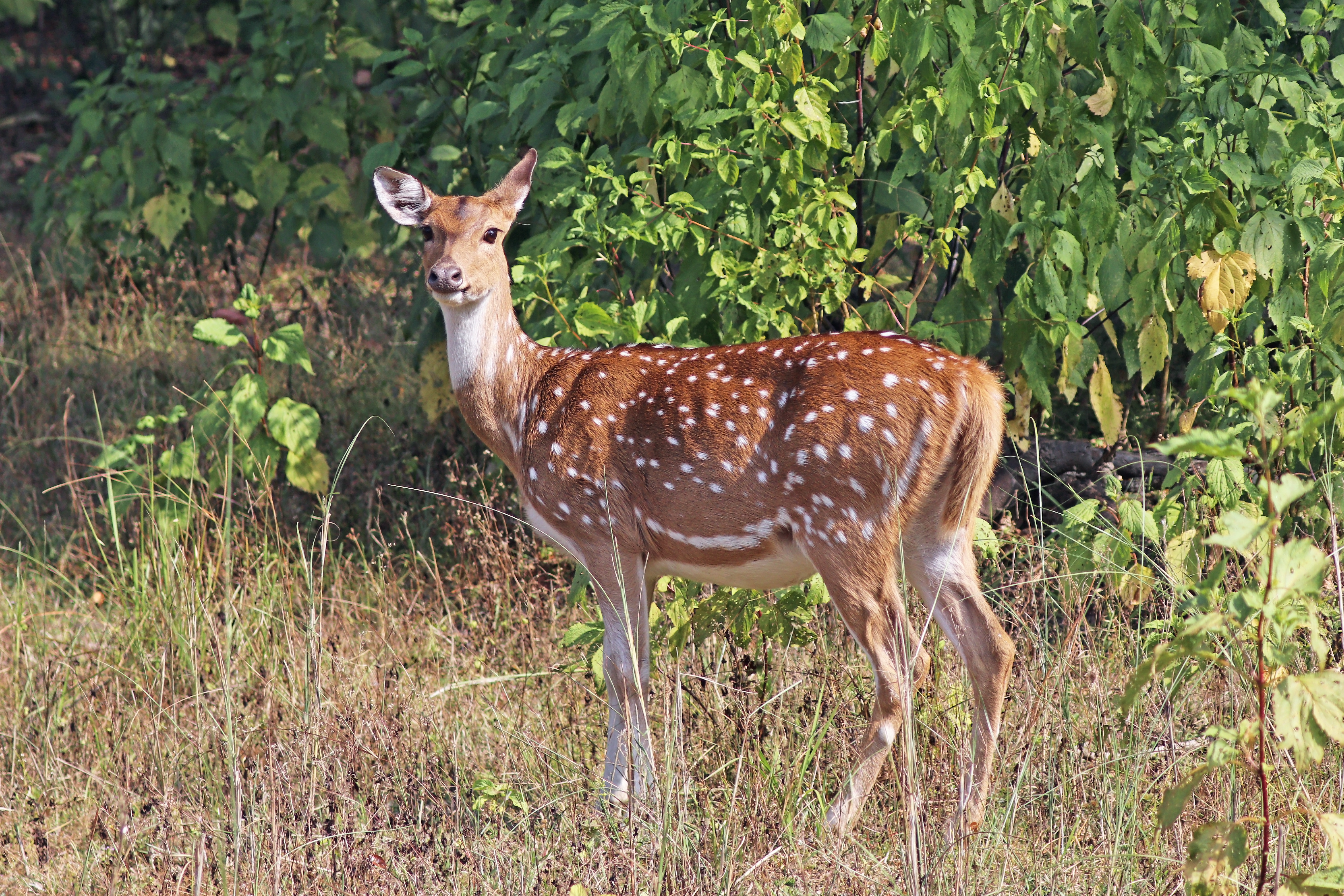 Spotted deer (Axis axis) female, Kanha National Park, MP, India